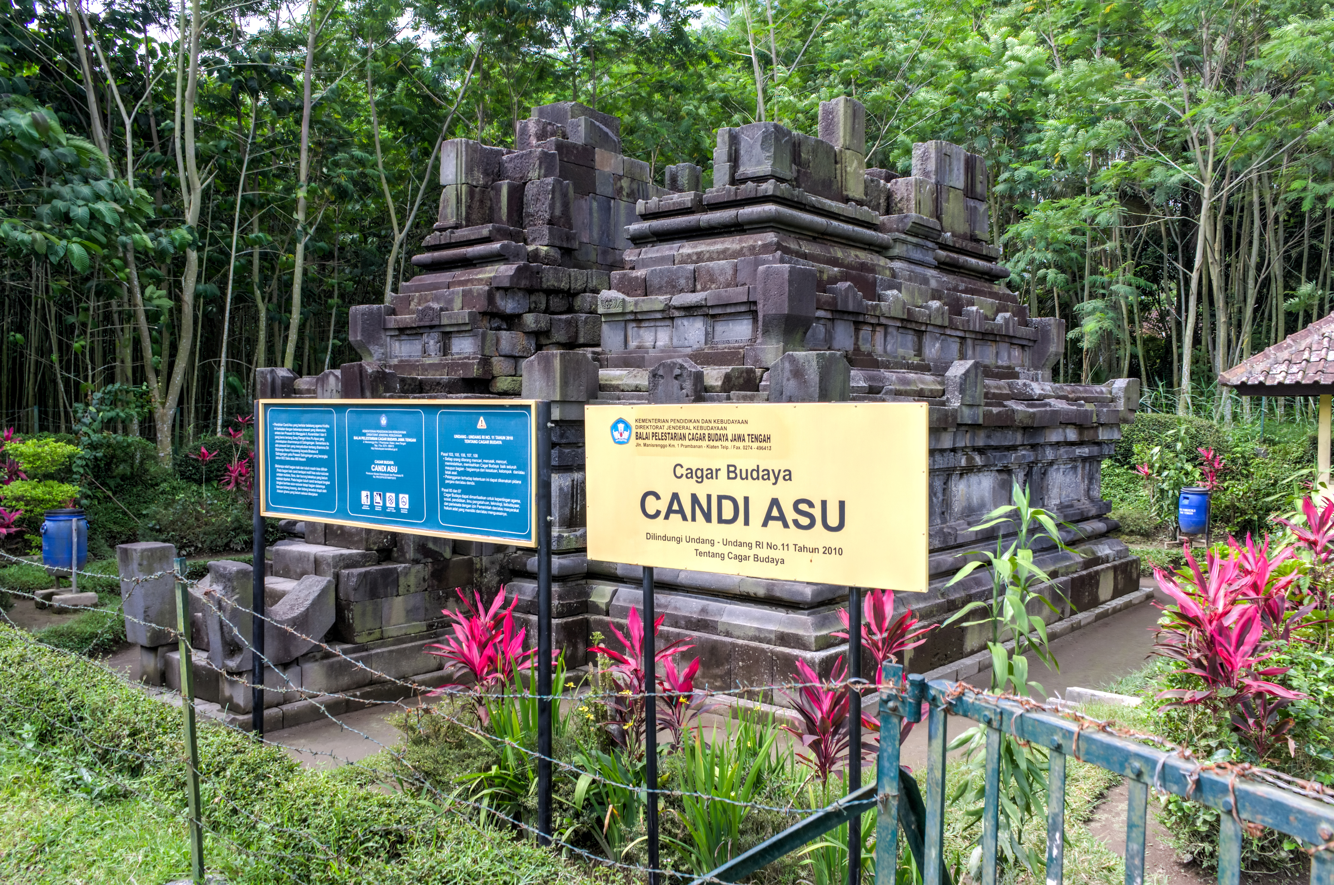 Asu Temple, Sengi, 2014-06-20 (01)